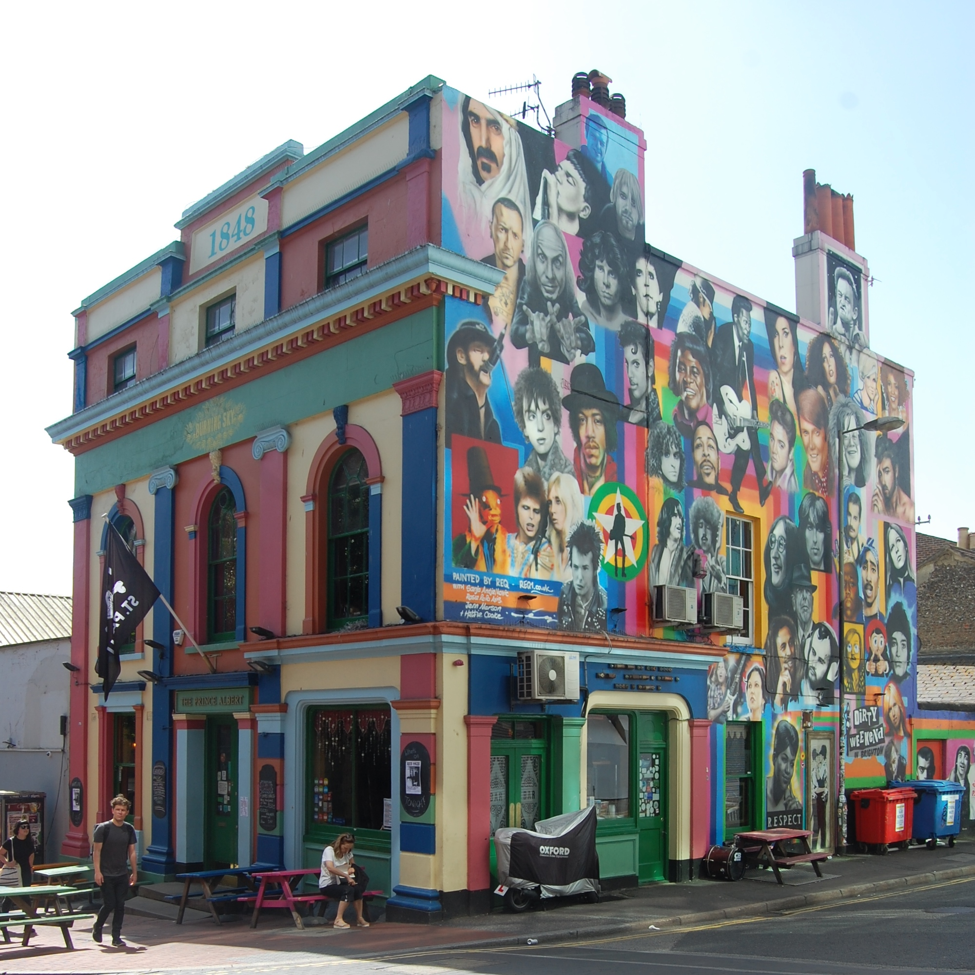 Prince Albert pub, 48 Trafalgar Street, North Laine, Brighton, City of Brighton and Hove, England. A Grade II-listed building near Brighton station.